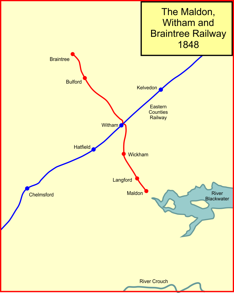 System map of the Maldon, Witham and Braintree Railway, England, in 1848